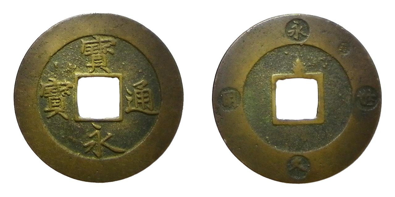 Hoei-tsuho-huka